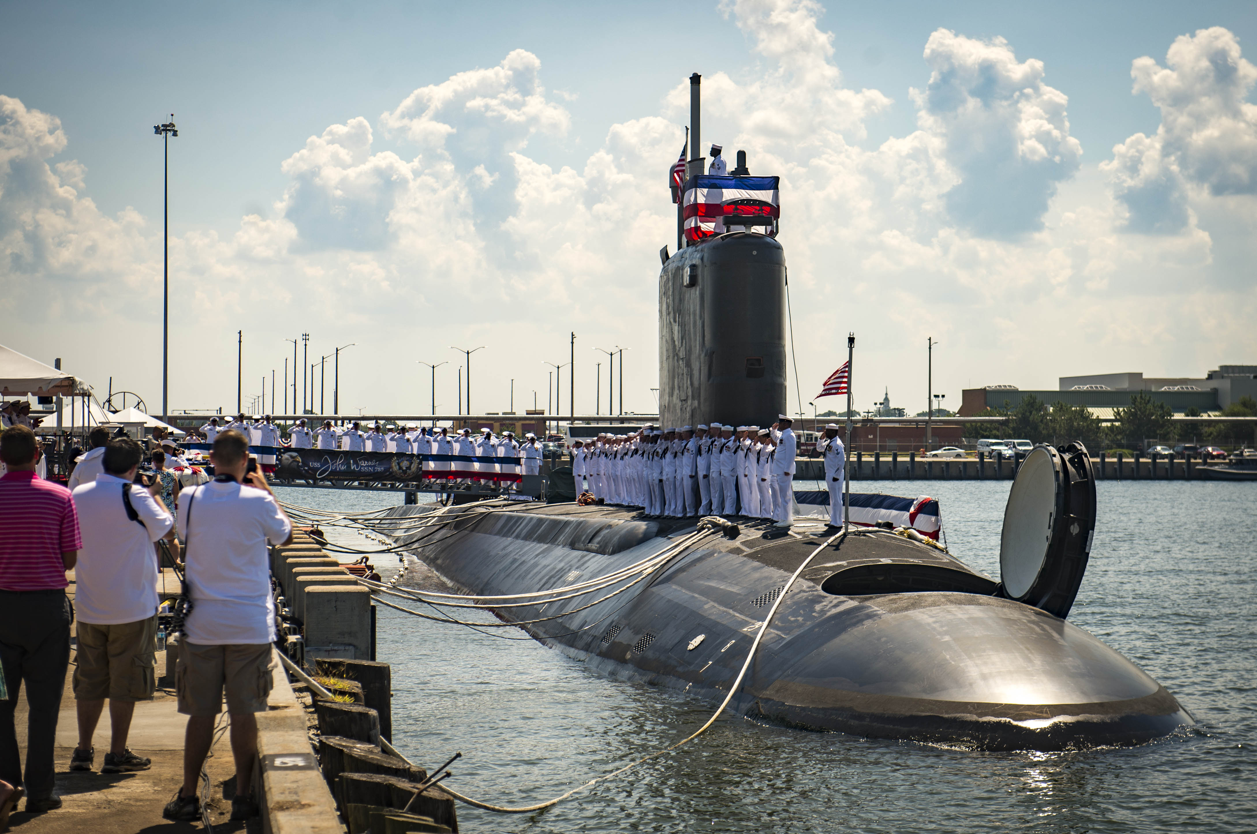 150801-EO381-162 NORFOLK, Va. (Aug. 1, 2015) Sailors man the rails as they bring the ship to life during the commissioning ceremony for the Virginia-class attack submarine USS John Warner (SSN 785) at Naval Station Norfolk. John Warner is the 12th Virginia-class attack submarine to join the fleet and the first Virginia-class attack submarine to be homeported in Norfolk, Va. (U.S. Navy photo by Mass Communication Specialist Seaman Casey Hopkins/Released)